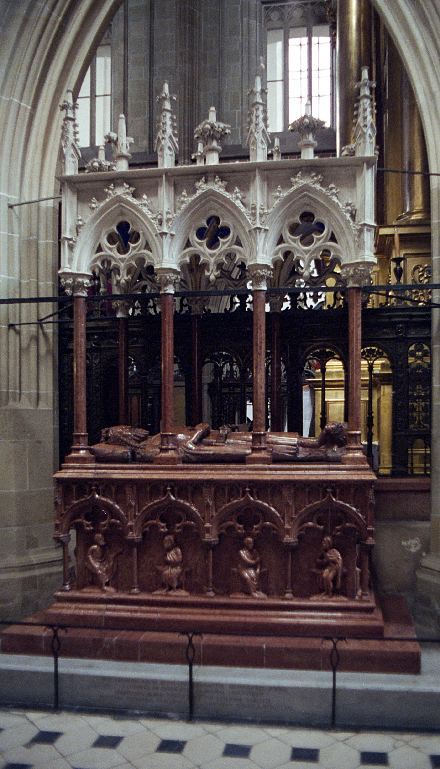 Kraków (Poland), cathedral church on Wawel Hill, tomb of king Casimir The Great, 14th cent.